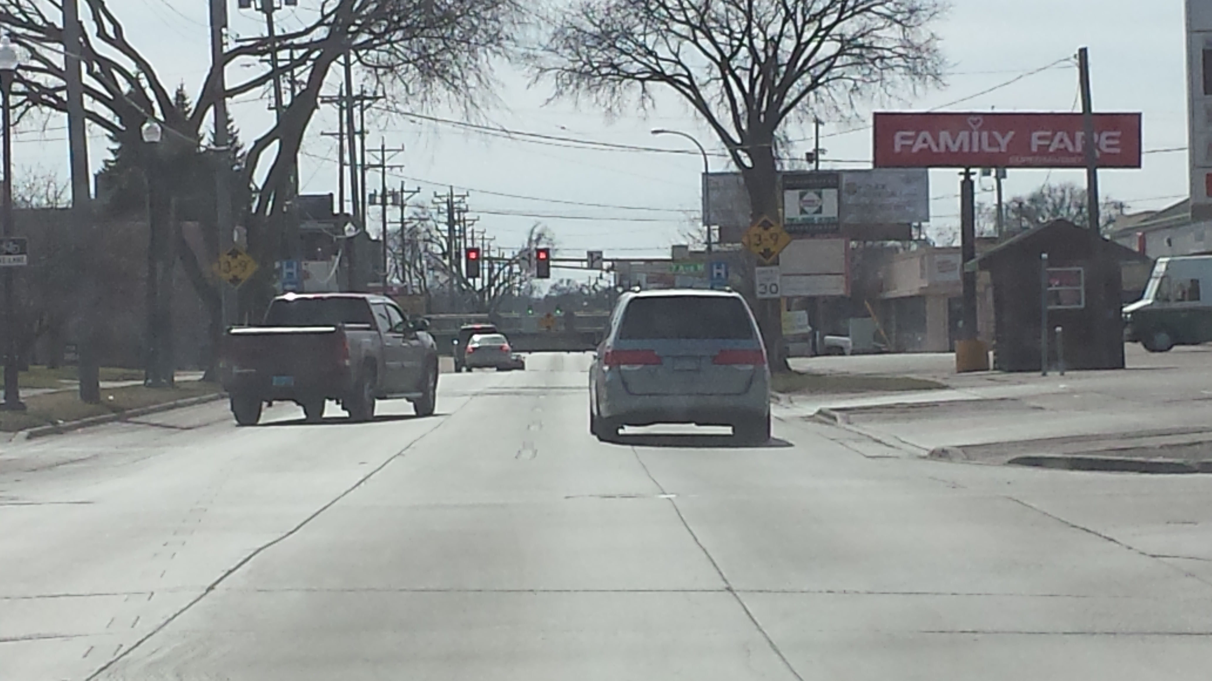 An example of university dr in Fargo.